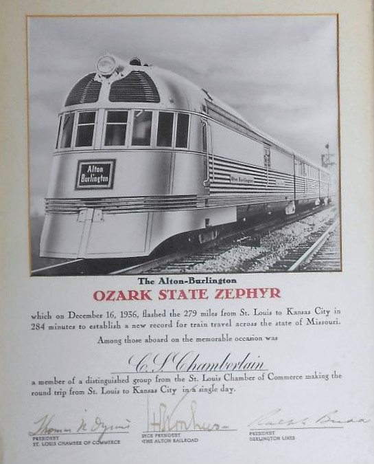 Speed record certificate given to those aboard the initial (non-service) run of the Ozark State Zephyr from St. Louis to Kansas City (which would become the train's regular route). The initial run was similar to that of the Pioneer Zephyr's "Dawn to Dusk", where only railroad officials and those invited by the railroad were on board. Three days after this initial run, the Ozark State Zephyr was put into revenue service. On its run, the new Zephyr set a speed record for trains in the state of Missouri. The route was jointly operated by the Burlington and Alton railroads. It's signed by Ralph Budd, President of the Chicago, Burlington and Quincy Railroad, the vice-president of the Alton Railroad and the president of the St. Louis Chamber of Congress. Original seller's description: "On 12/16/1936 a few days before the Ozark State Zephyr began to operate with the public a trial run was done apparently for the members of the St Louis Chamber of Commerce in which a Missouri speed record was established. The Zephyr flashed 279 miles from St Louis to Kansas City in 284 minutes. This framed certificate is a great souvenir from that occasion. It is signed by Ralph Budd, president of the Burlington Lines and Thomas Dysert who was tragically killed in an airplane crash in the early 1940s. I believe this is in the original wood frame appropriately painted silver. I believe the autographs are genuine and not preprinted although i did not want to remove the item from the frame to look more closely. This is a very attractive piece - museum quality."